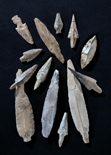 Ashkelon Pre-Pottery Neolithic C flint arrowheads.